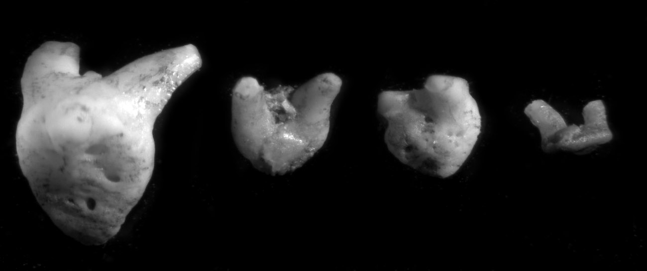 Fragmented orthacanthus teeth from the Halgaito shale of Arizona, USA, showing typical crescent-shaped bicuspids. photo by me user debivort October 2007